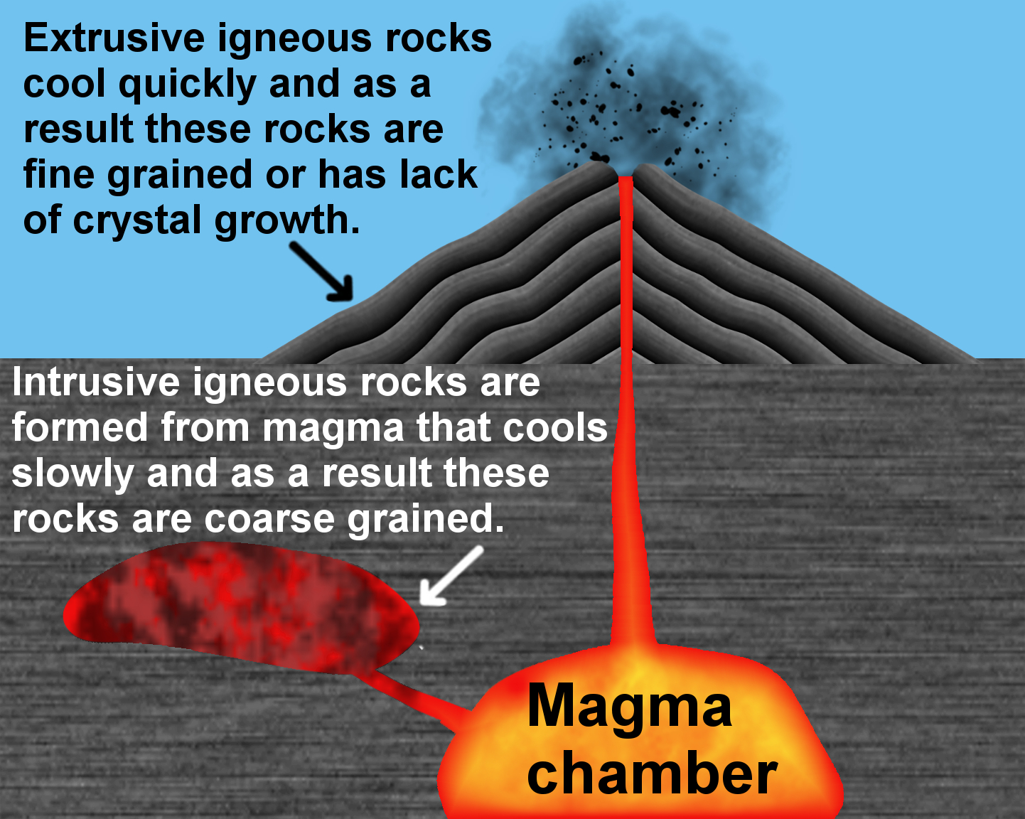 This JPG graphic was created with GIMP. Igneous rock illustration with english text. Information for this image can be found in the book: Jorden - Illustrerat uppslagsverk/sid:80 /Förlag: Globe förlaget,2005,/ ISBN 91-7166-020-8 /Orginal title: Earth (ISBN 1-4053-0018-3)(2003 Doring Kindersley)